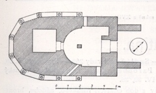 Plan of Holy Sepulchre chapel in town of Slaný, Kladno District, Czech Republic.